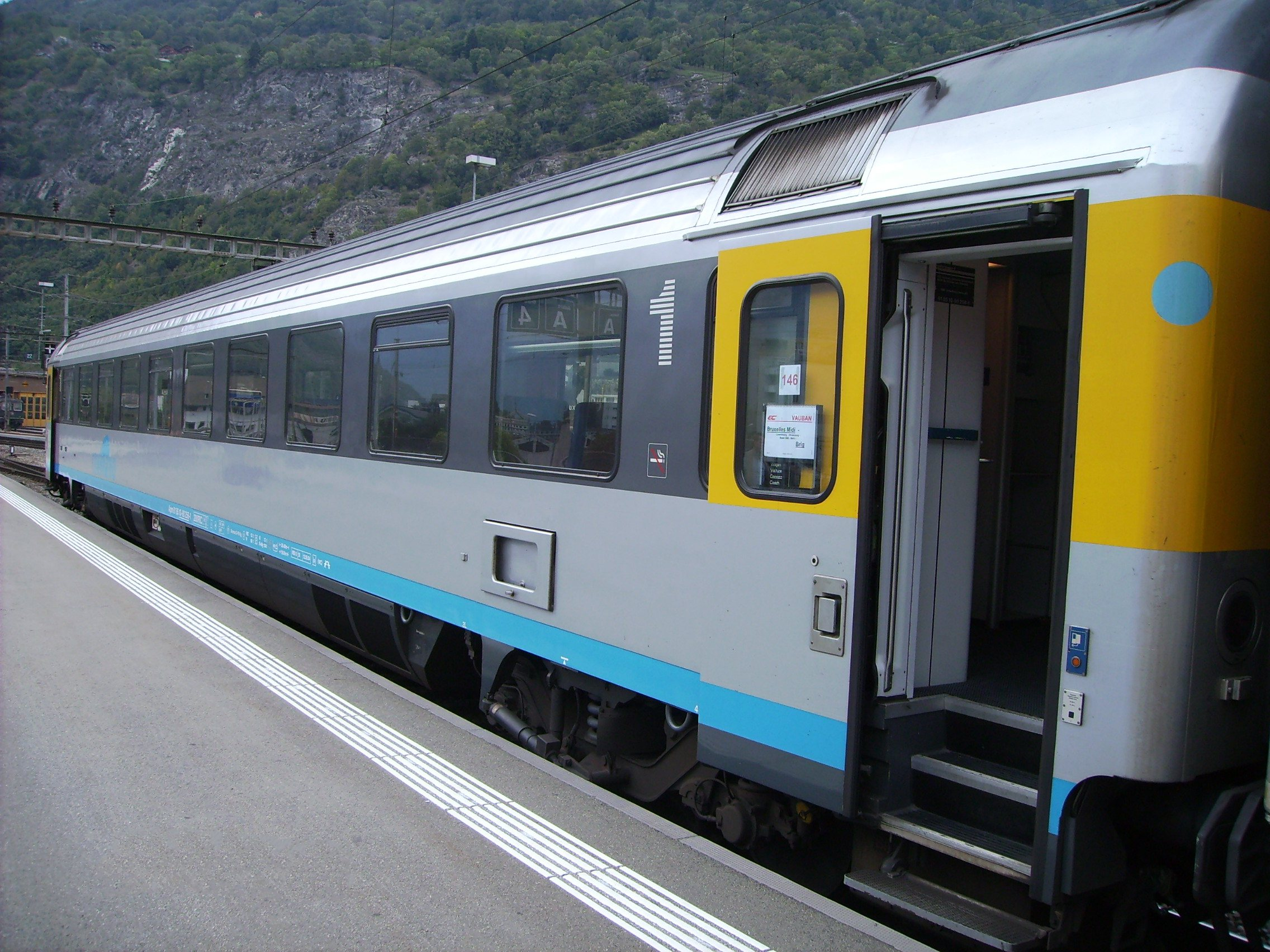 EuroCity-Car (1st class) of Cisalpino in Brig, Valais, Switzerland